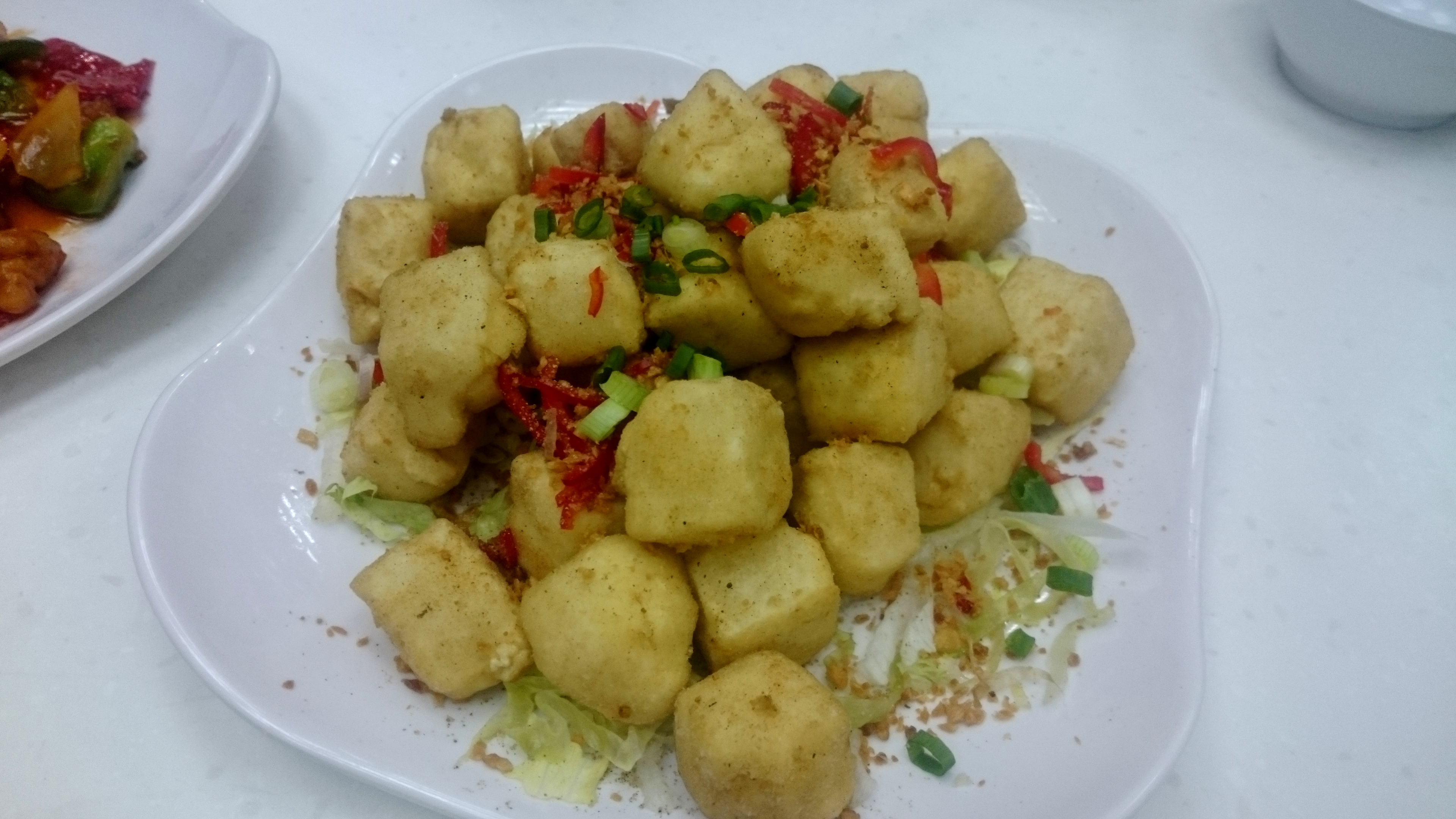 Salt and Pepper Beancurd